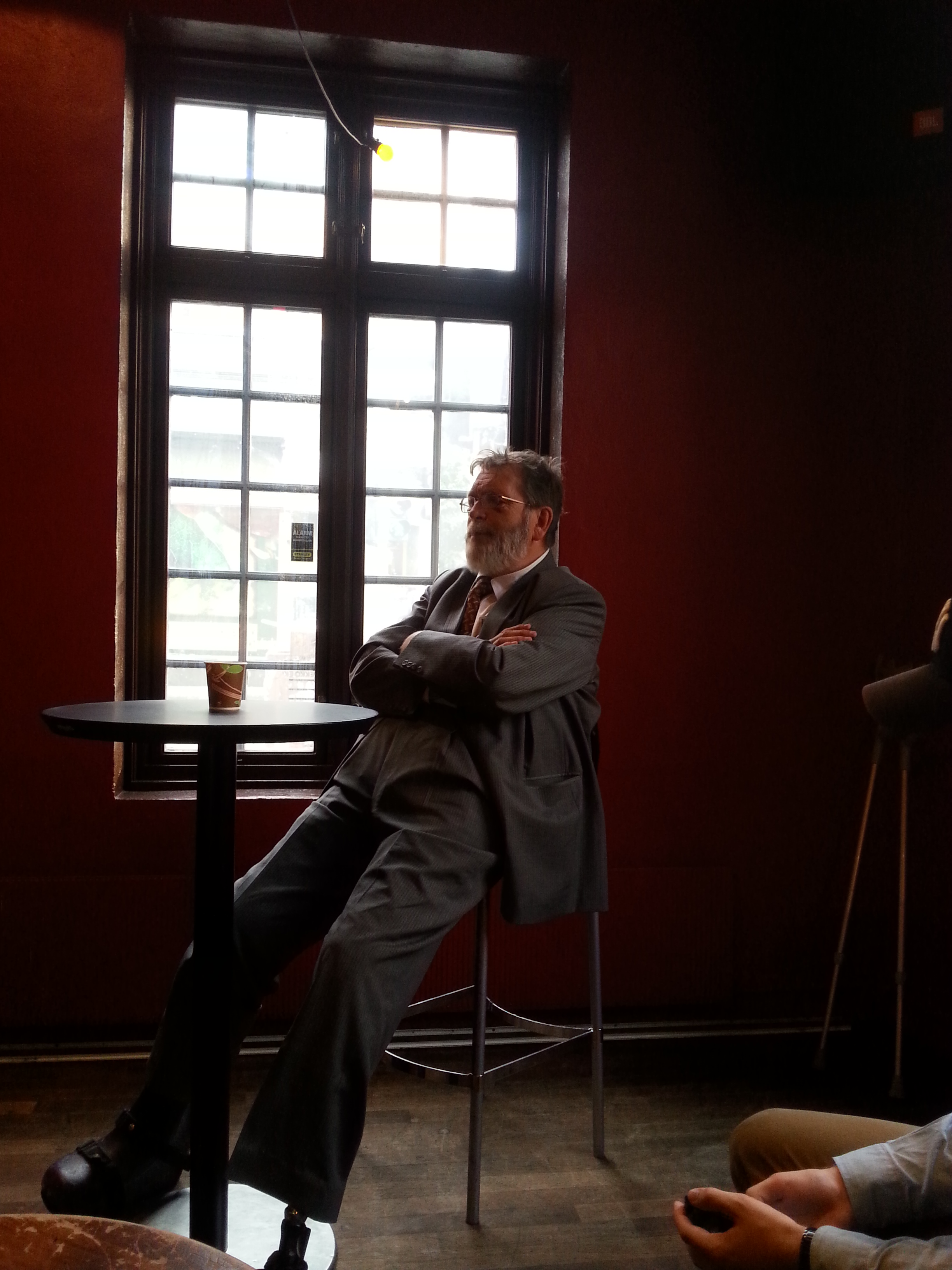 Frank Aarebrot speaking for students from the Institute of Comparative Politics at the University of Bergen.